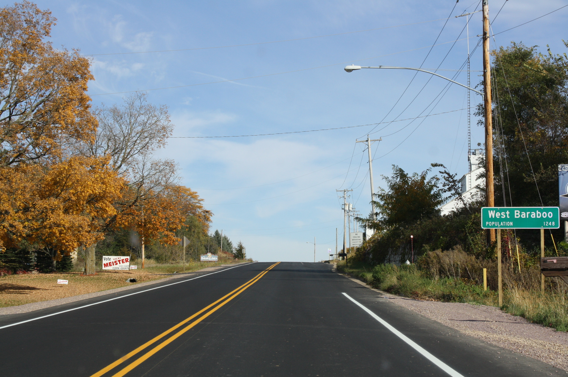 Looking east at the sign for West Baraboo, Wisconsin on Wisconsin Highway 136.